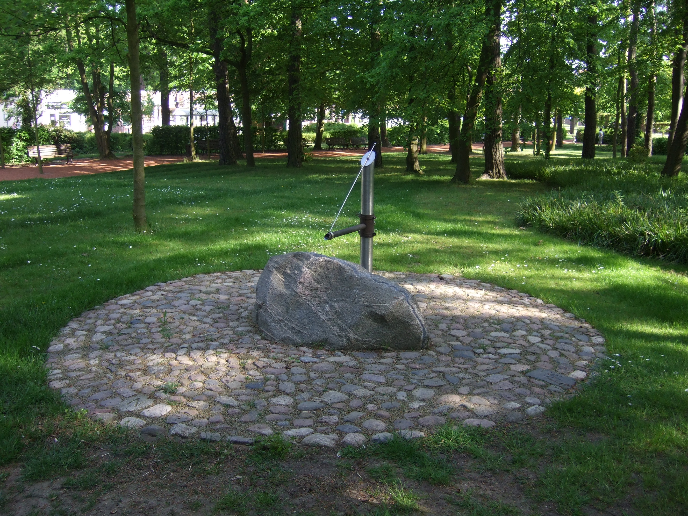 Drainage divides stone indicating divide to North Sea and Baltic Sea in Wandlitz, Brandenburg, Germany.